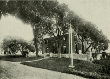 Haskell homestead at Waldoboro, Maine, from a 1908 publication.